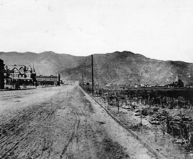 Photo of Olive Avenue shortly after the founding of Burbank. View is looking north. On the left side a part of the Burbank Times can be seen. Right next is the old boomtime hotel, the Burbank Villa Hotel followed by the Burbank Block, erected in 1889. Historical Notes: The Burbank Villa Hotel was built in 1887 by Dr. Burbank and his son-in-law John W. Griffin at a cost of $30,000.00. It was later renamed the Santa Rosa Hotel and remodeled into apartments. By the late-1920s, it had been torn down and replaced with the post office located at 135 E. Olive Avenue.